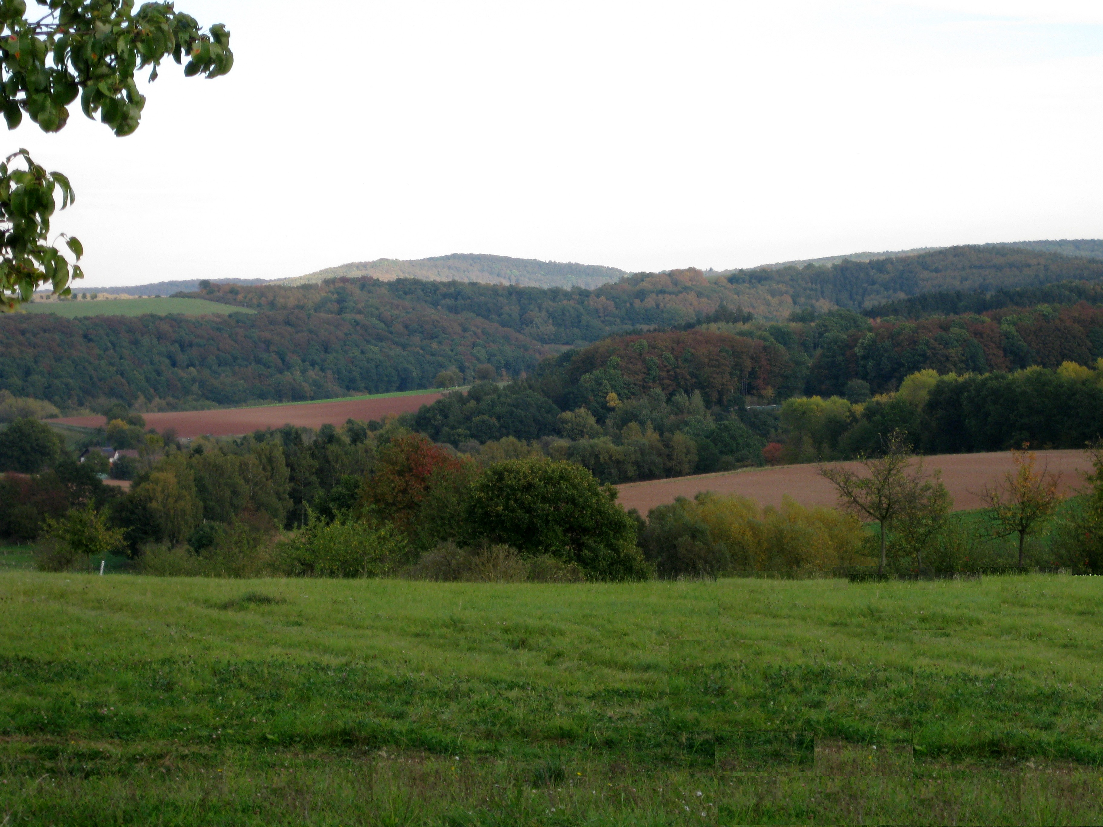 Eichsfelder Landscape (Fuhrbach)